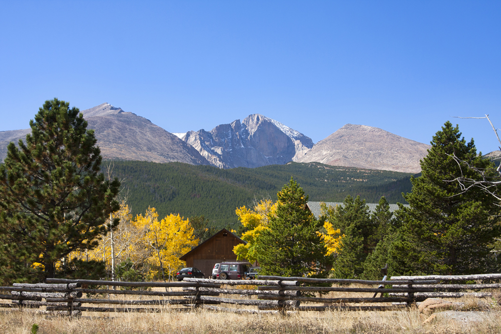 A shot of Longs Peak from the east with a cabin in the foreground.